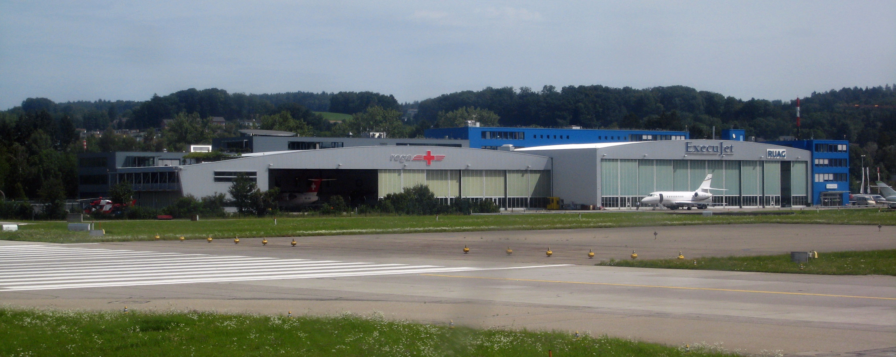 Rega (Swiss Air-Rescue) base at Zurich Airport. RUAG/ExecuJet hangar also pictured.